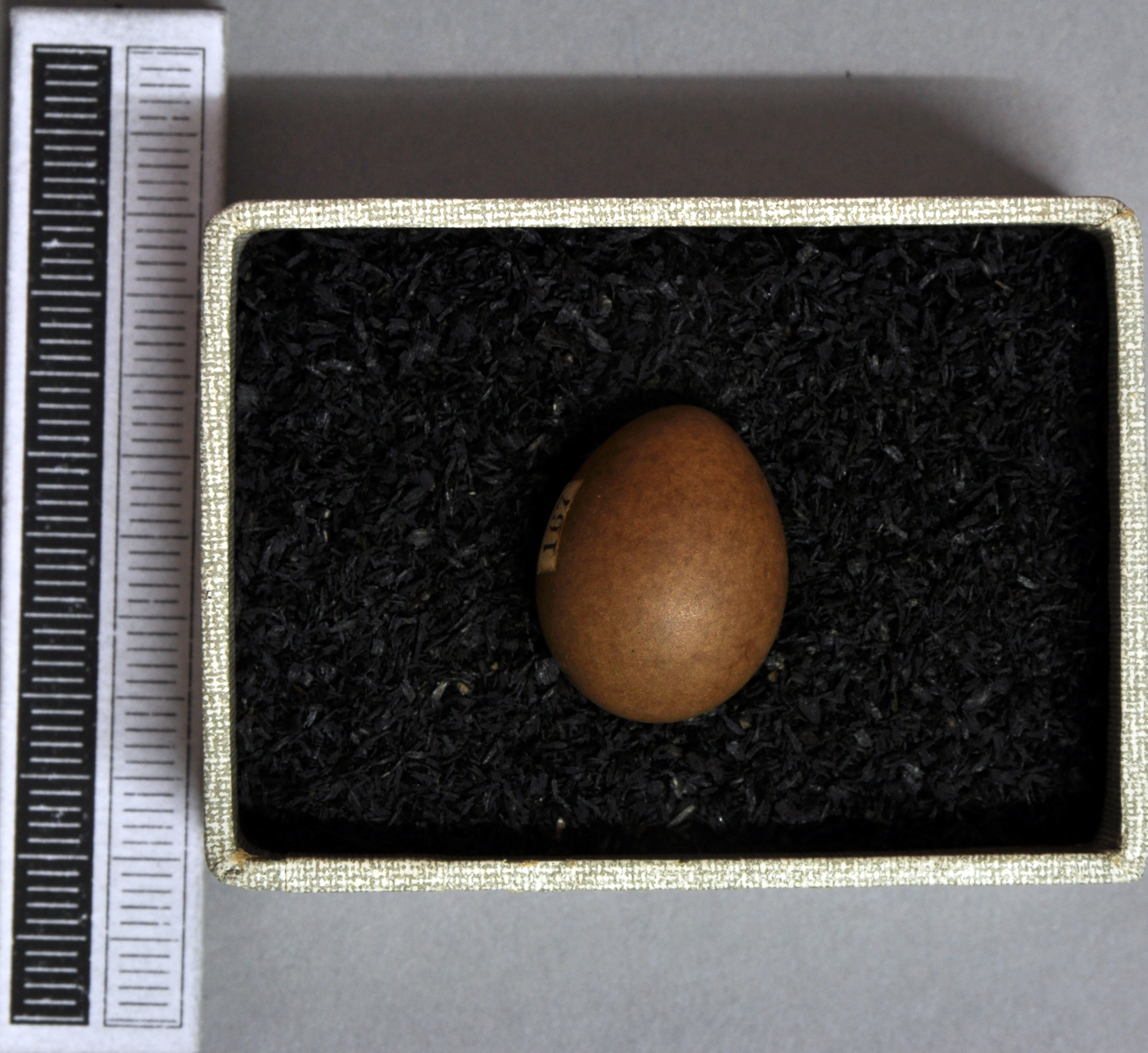 Buff-bellied pipit Anthus rubescens , egg, Coll. Museum Wiesbaden